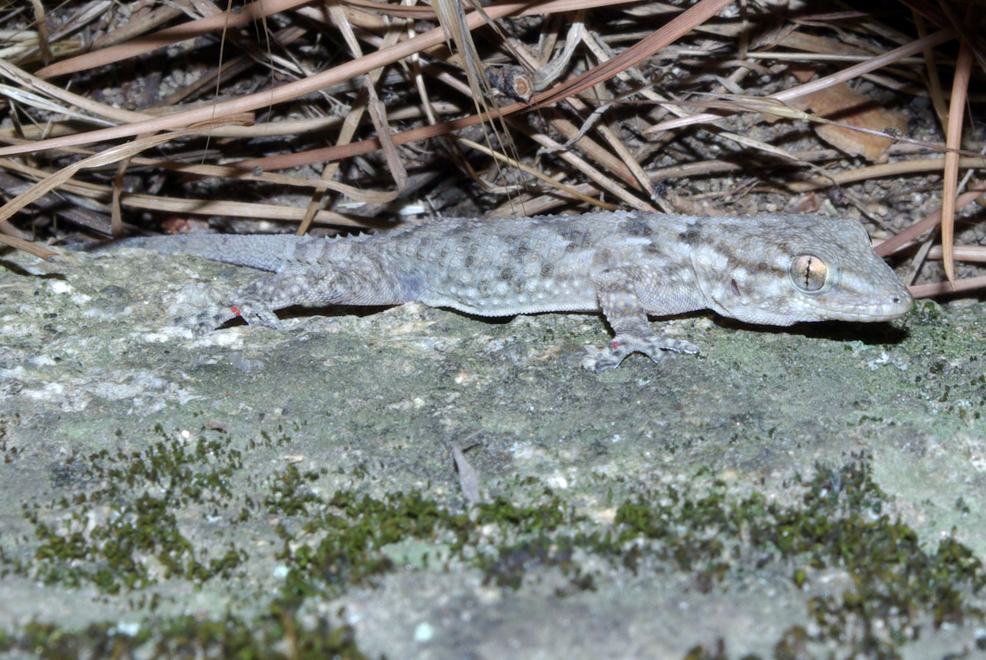 Common Wall Gecko (Tarentola mauritanica) at river Tiétar. Near La Adrada (Ávila, Spain)